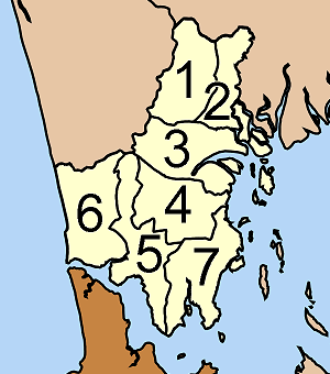 Map of Kapong district, Phang Nga province, Thailand, with the communes (tambon) numbered. Tham (ถ้ำ) Kra Som (กระโสม) Ka Lai (กะไหล) Tha Yu (ท่าอยู่) Lo Yung (หล่อยูง) Khok Kloi (โคกกลอย) Khlong Khian (คลองเคียน)